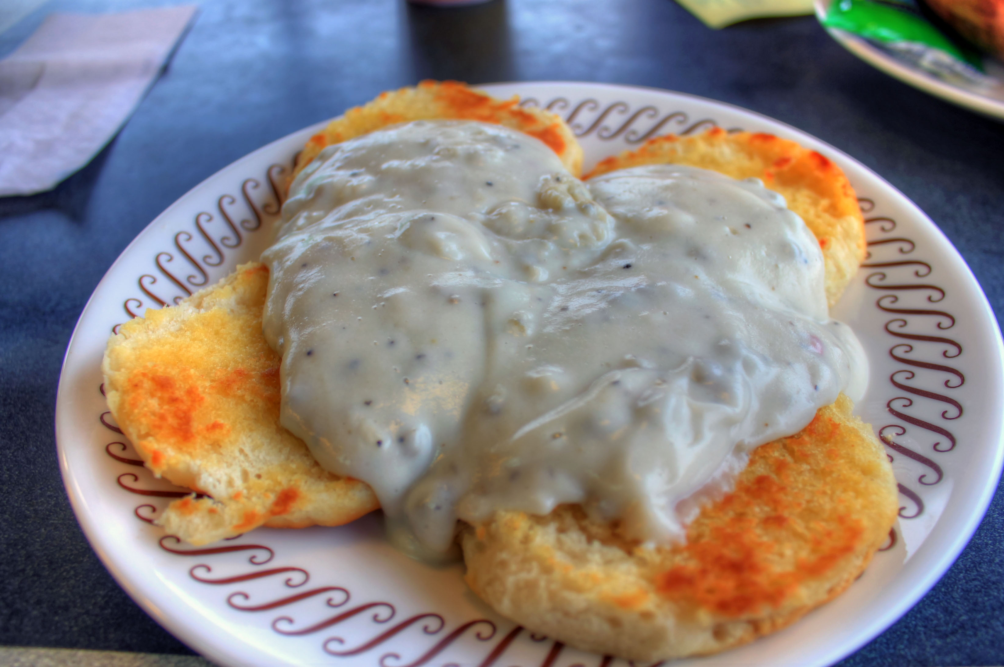 Pictures of Food: Biscuits (?) and Gravy for breakfast